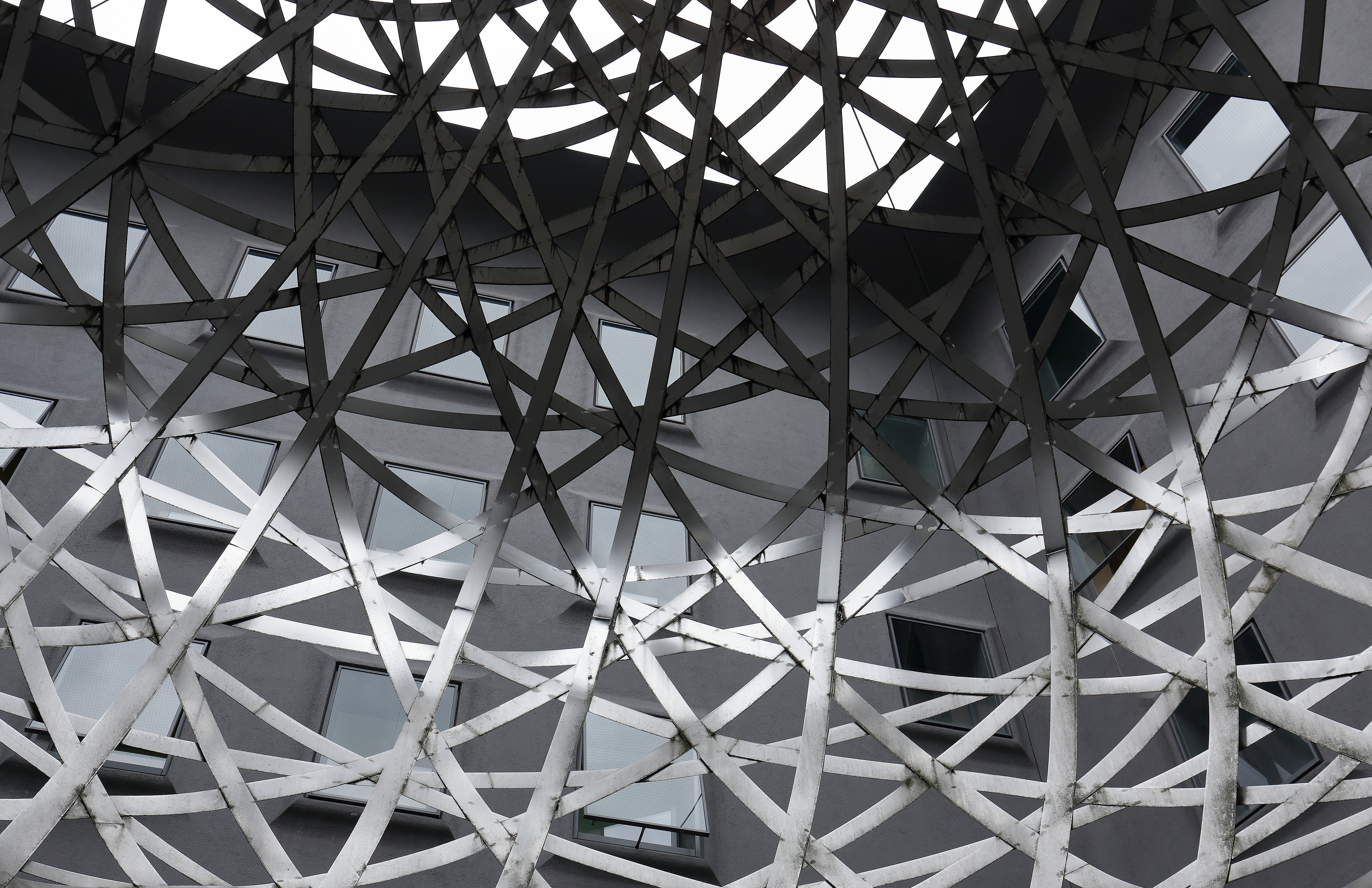 Munich shopping mall Fünf Höfe: Detail of "Sphere" by Olafur Eliasson.